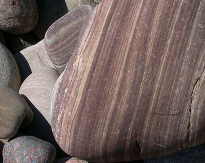 Stones on the island Blå Jungfrun, Sweden.